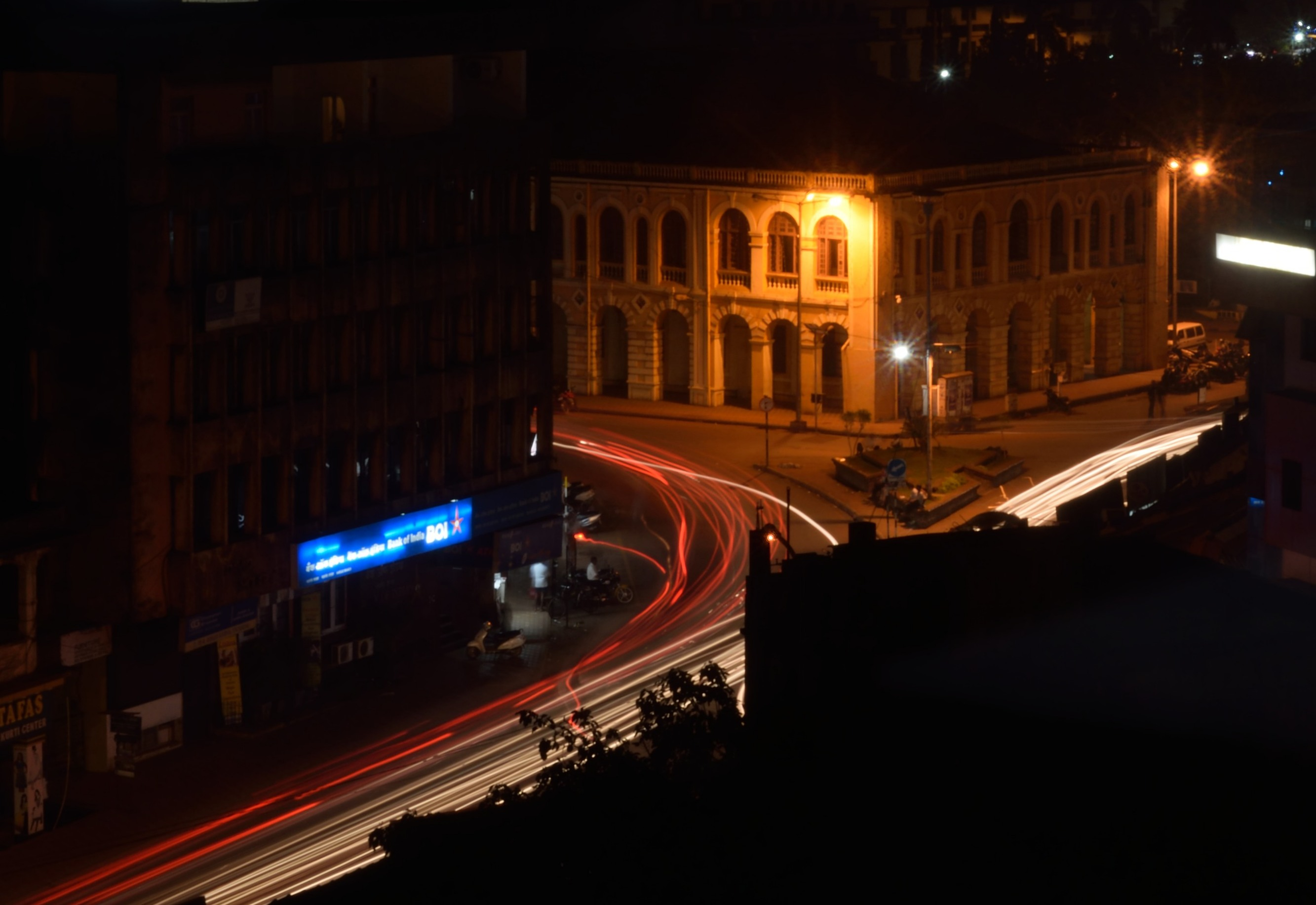 Madgaon Municipal Council Building